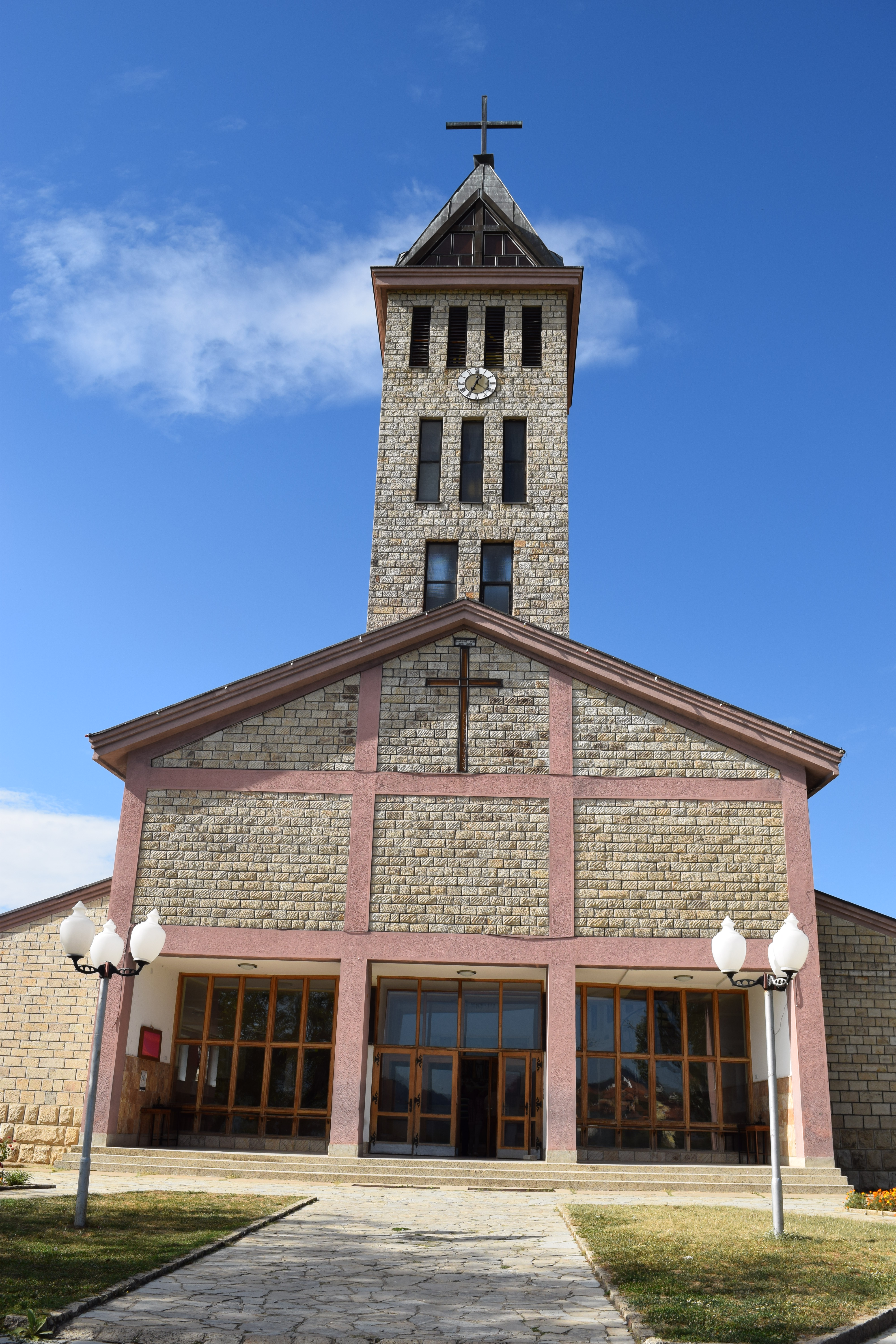 Roman Catholic Church located in the Upper Stublla in Eastern Kosovo.